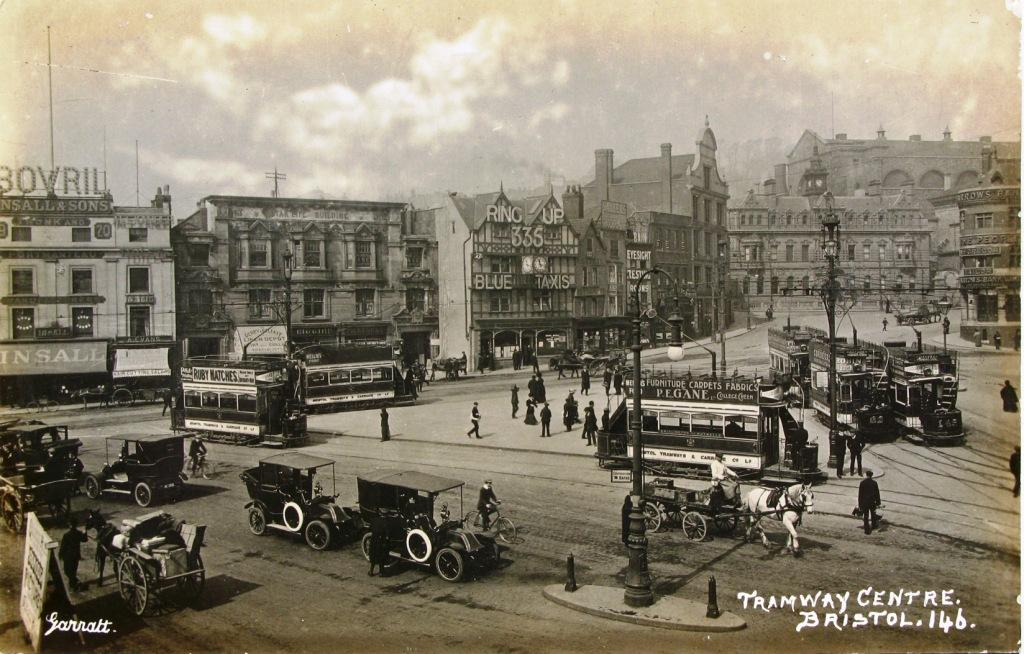 The Tramways Centre in Bristol, England. Several different tram routes met at St Augustine's Parade and Broad Quay and even today it is known as The Centre. The mock timber framed bulding with the clock in the background is the office of the Bristol Tramways Company; the Blue Taxis that are advertised on its wall were also operated by the company.Postcard 144 in the same series is dated 6 August 1919 by the Bristol Archives.[1]